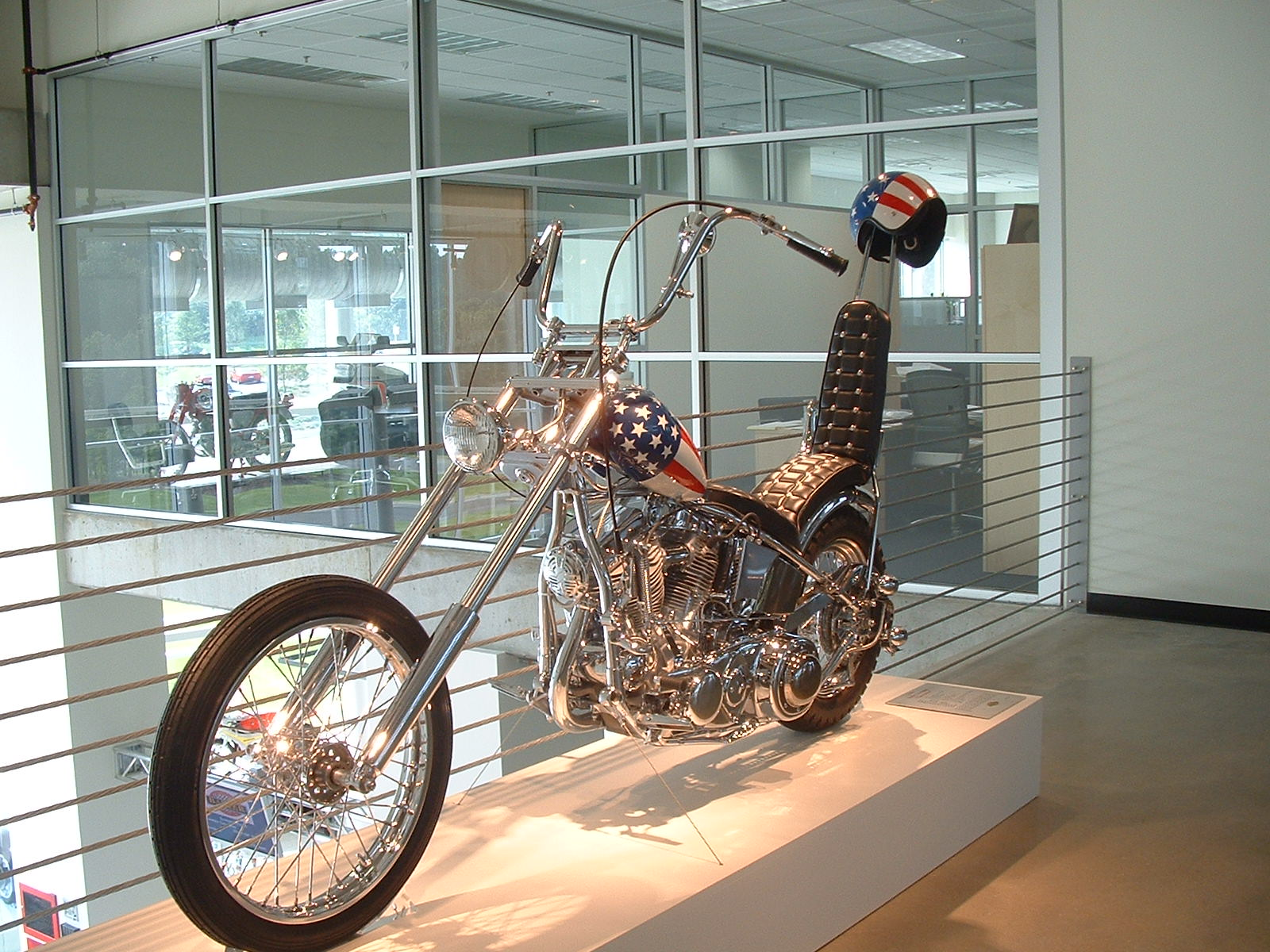 19Sep03AMA 057 Chopper in Easy Rider